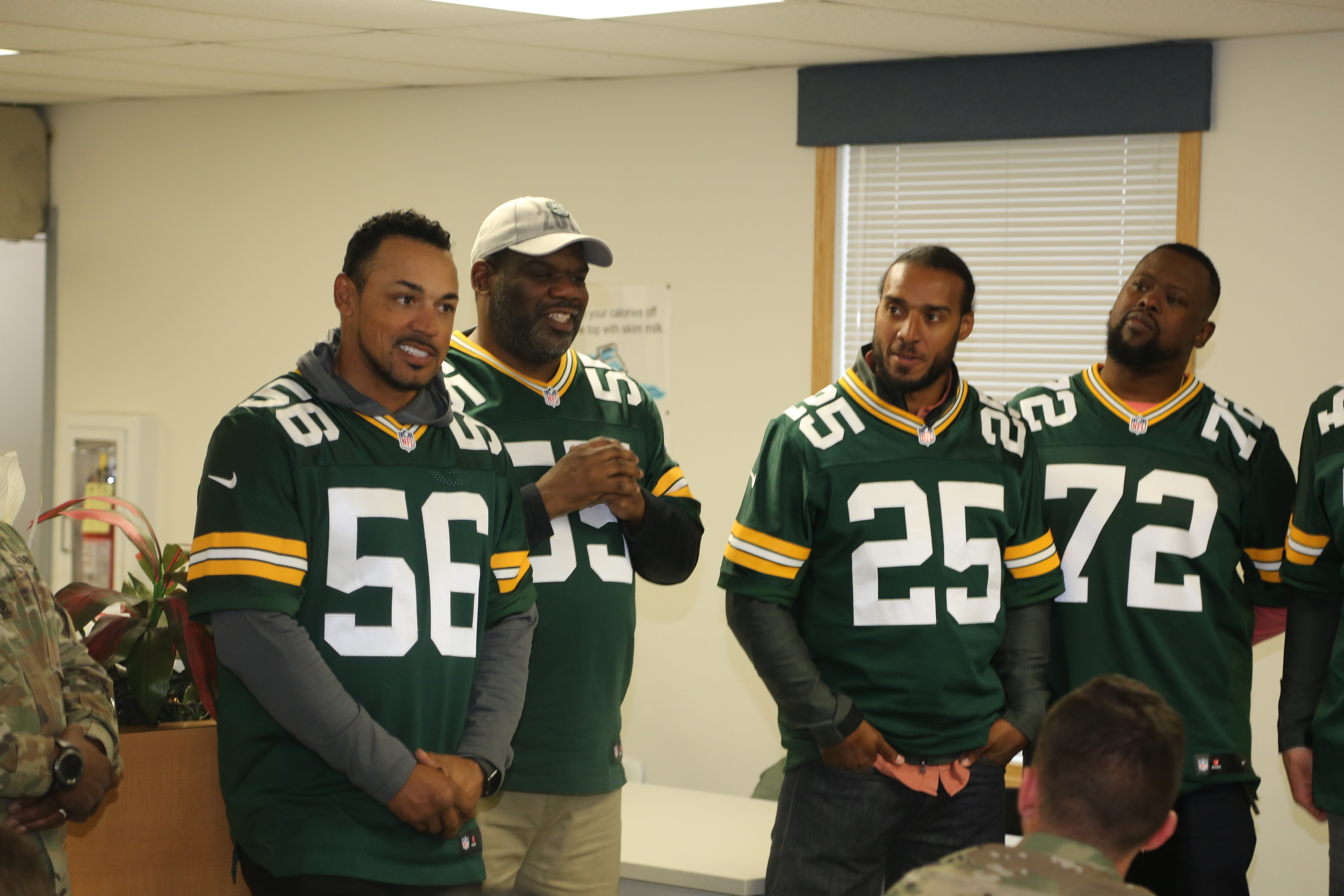 Members of the Green Bay Packers Tailgate Tour meet with Soldiers at a dining facility April 10, 2019, at Fort McCoy, Wis. Packers President/CEO Mark Murphy and six Packers alumni were among the people on the 14th annual Packers Tailgate Tour who visited Fort McCoy. Packers alumni on the tour were Earl Dotson, Nick Barnett, Ryan Grant, Aaron Kampman, Scott Wells, and Bernardo Harris. All of the tour members mingled with Soldiers, signed autographs, and posed for photos. Tour members also visited Fort McCoy’s Range 2 to learn about operations for Operation Cold Steel III and Task Force Fortnite. (U.S. Army Photo by Scott T. Sturkol)